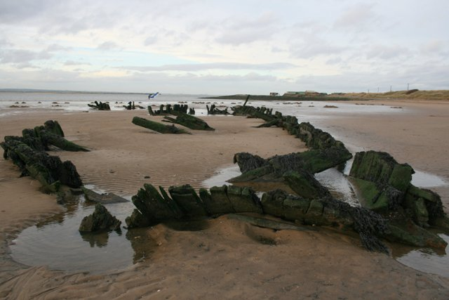 Skeleton of Old Wooden Ship, Bran Sands Looking north to the South Gare. In the sea just left of centre a kite surfer is trying to launch.